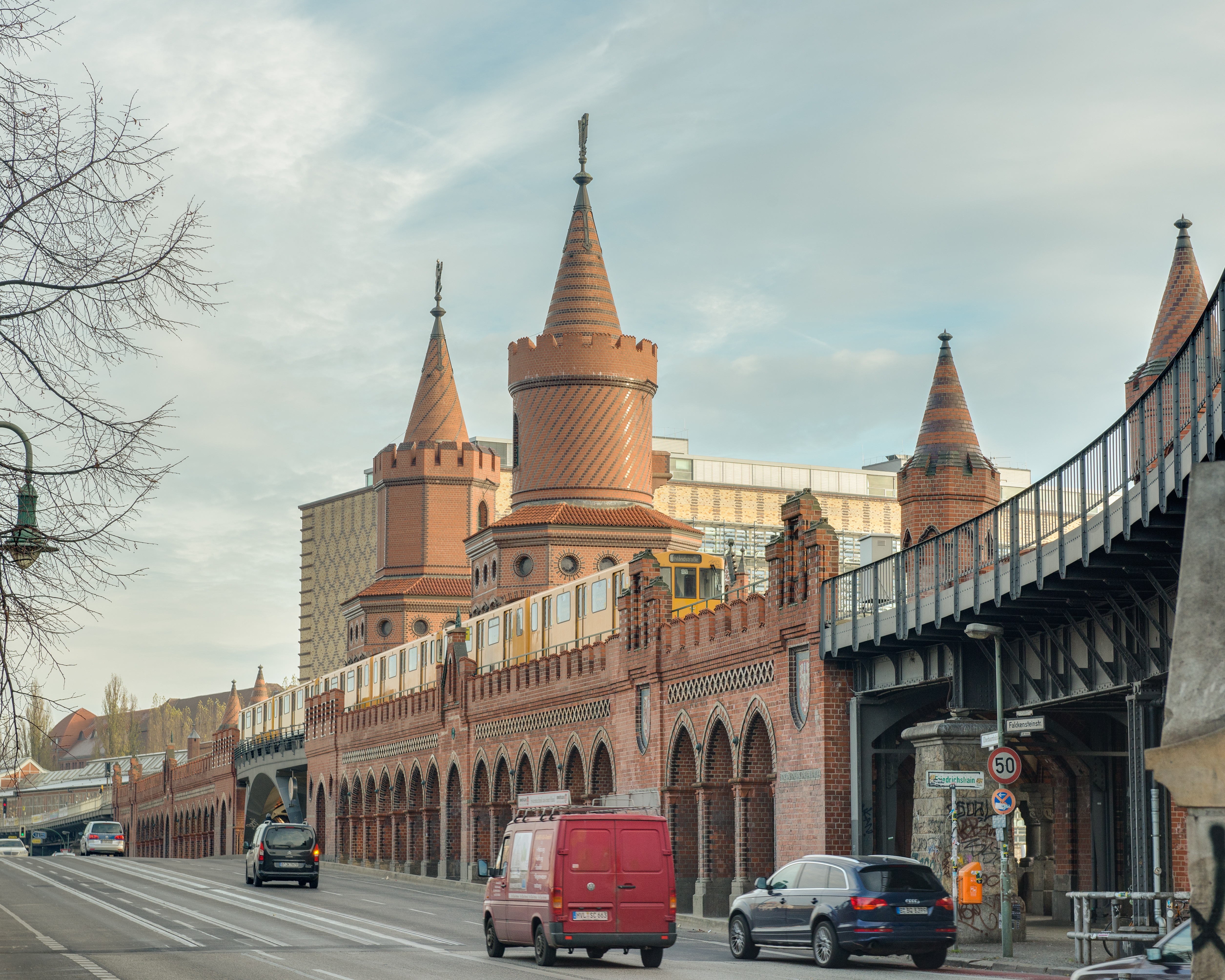 U-Bahn train crossing the Oberbaumbrücke bridge, Berlin.